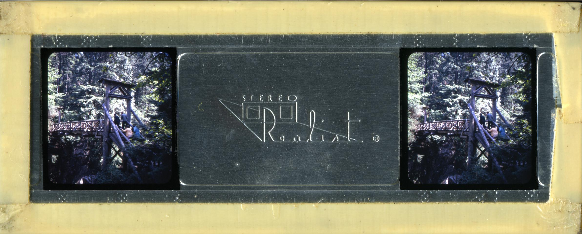 Realist slide mounted in an aluminum mask and sandwiched between glass pieces secured with mounting tape